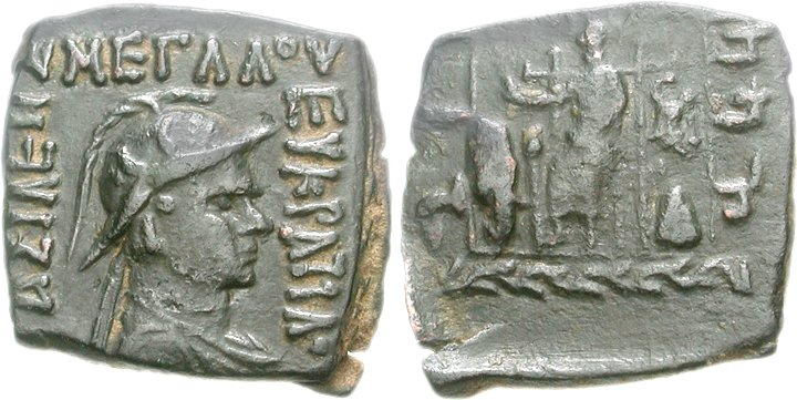 Coin of the Bactrian king Euthydemos I; back shows City goddess Kapisa seated on throne facing